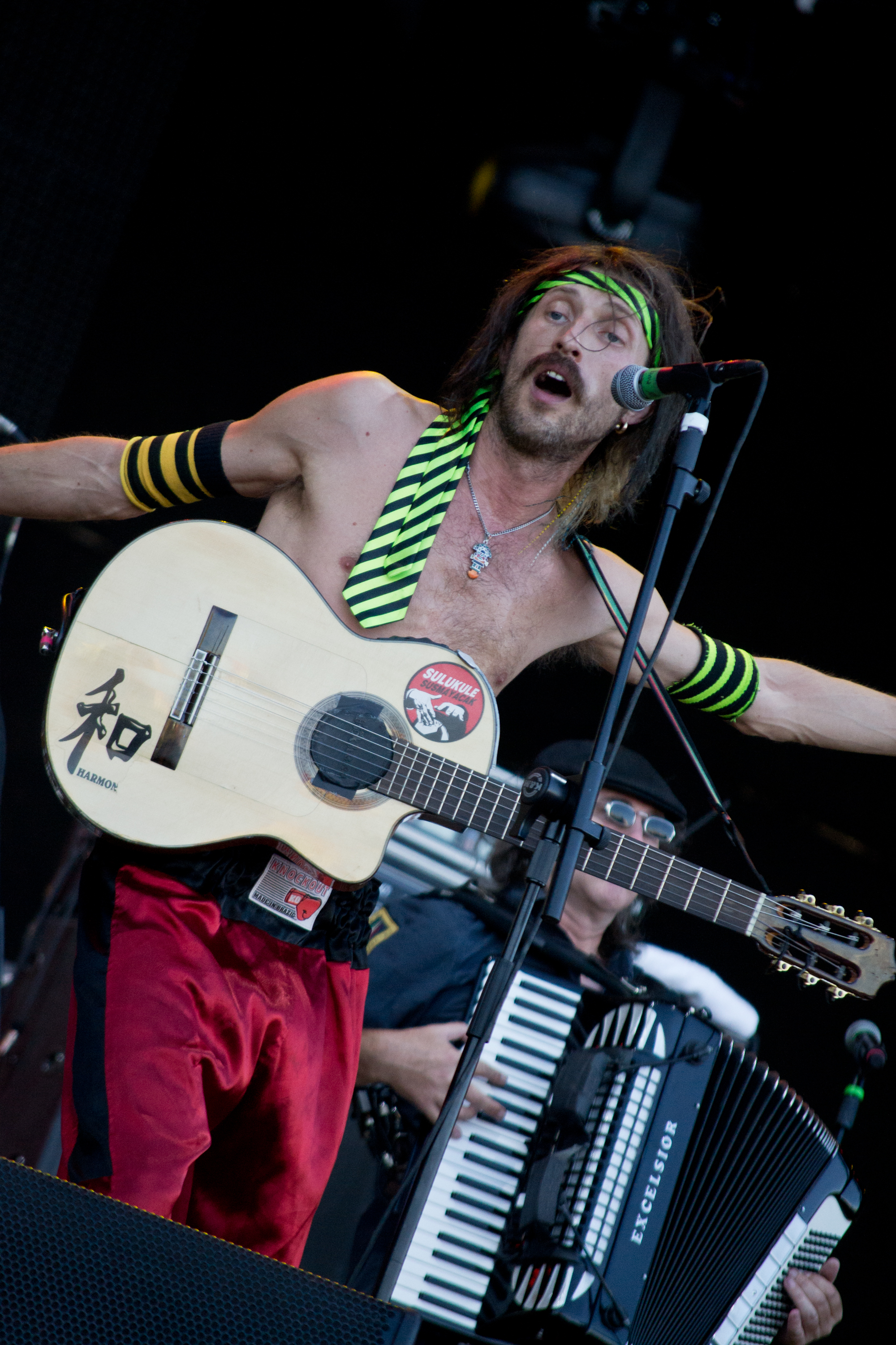 Gogol Bordello in Rock in Rio Madrid 2012.